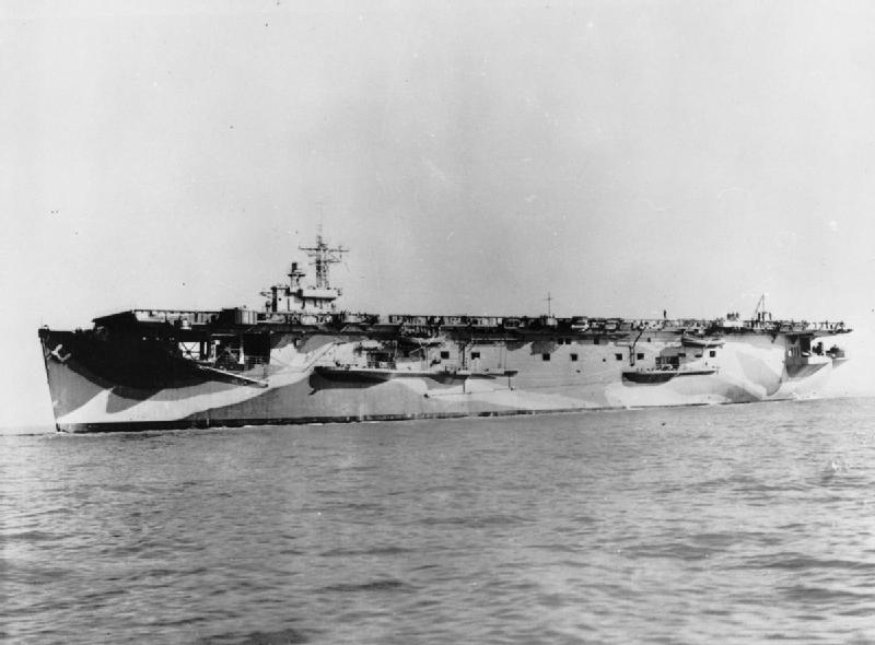 HMS Stalker off coast near San Francisco, California. IWM catalogue number FL 19295.